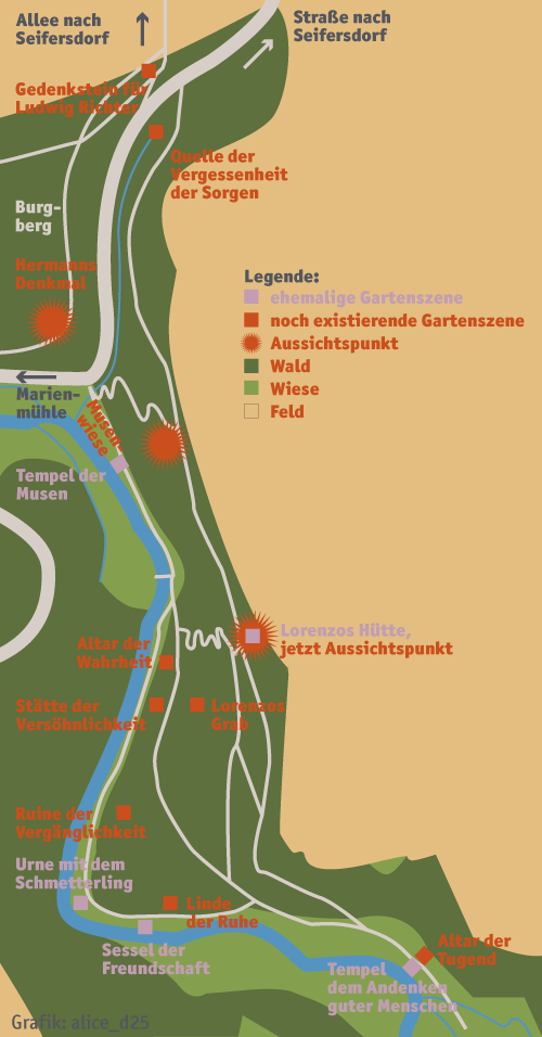 The Seifersdorfer Tal isa German landscape garden from the end of the 18th century near Dreasden, Saxony, built by Christina von Brühl, southeastern part.